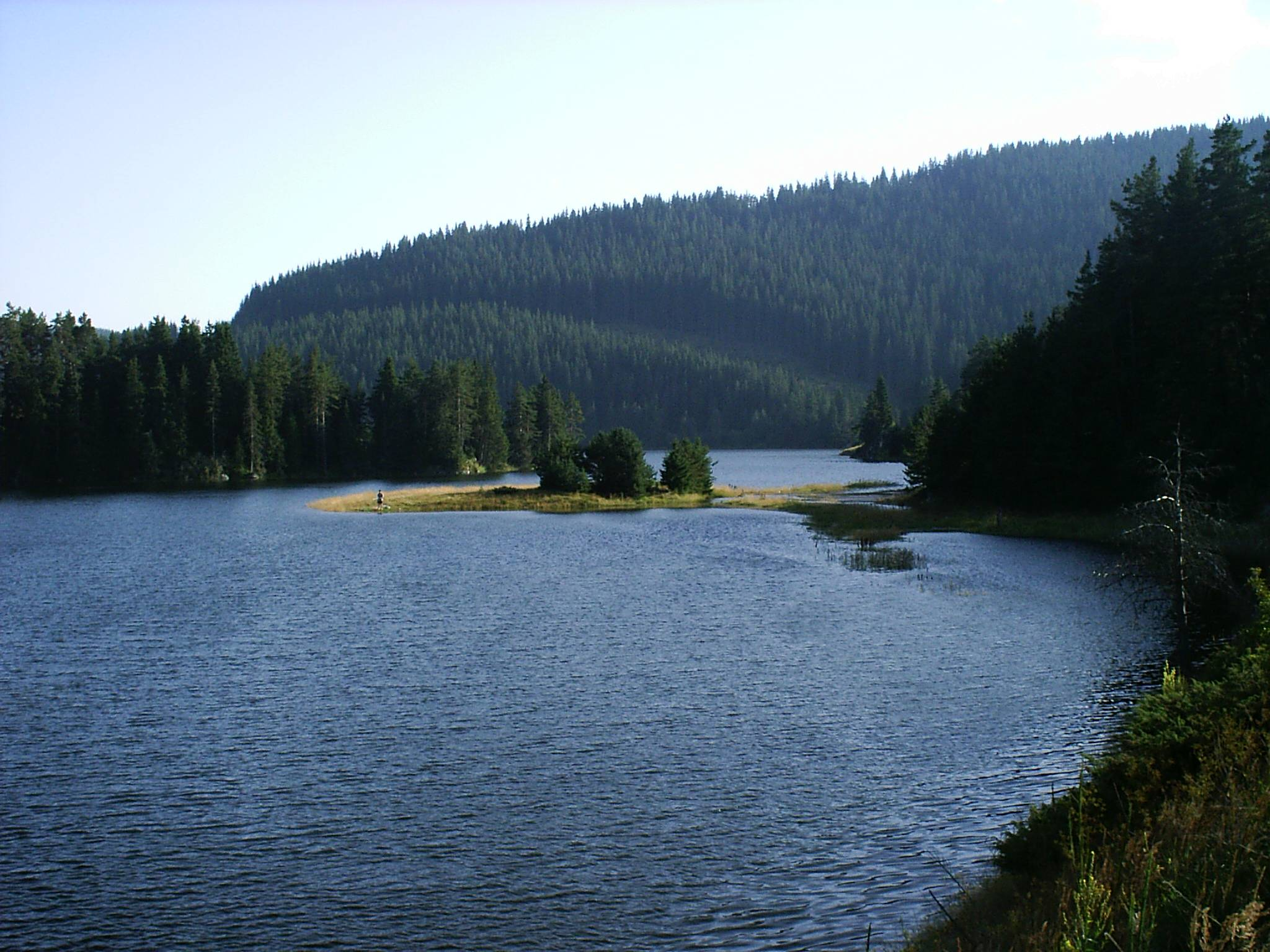 The Beglikа Dam in Bulgaria.